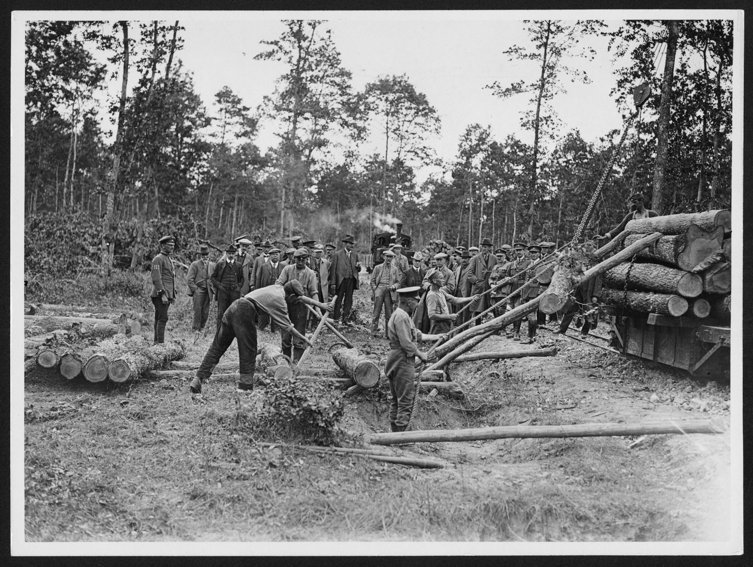 Canadian Forest Corps unloading timber, France, during World War I. The photographer recorded an official visit by Canadian journalists to see the work of the Canadian Forestry Corps. The Corps consisted of lumbermen recruited to work in forests in England, Scotland and later in France. They felled timber and produced the huge quantities of wood needed for such things as railroad ties and roads. By the end of the war there were 10,000 foresters working in Britain and 12,000 in France. [Original reads: 'OFFICIAL PHOTOGRAPH TAKEN ON THE BRITISH WESTERN FRONT IN FRANCE. Canadian Journalists visit France. Inspecting the work of the Canadian Forestry Detachment.']